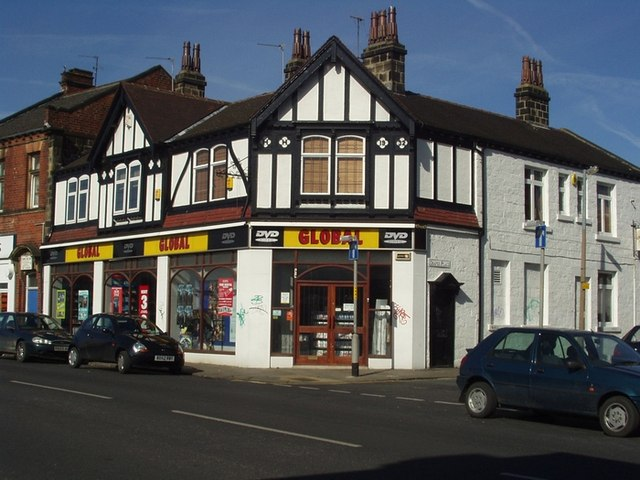 Global, Chapel Place, Headingley. Looking north across North lane to Chapel Place. The video and DVD store was once Hufton's grocers. Back then it housed 3 shops - see a picture from 1933 on